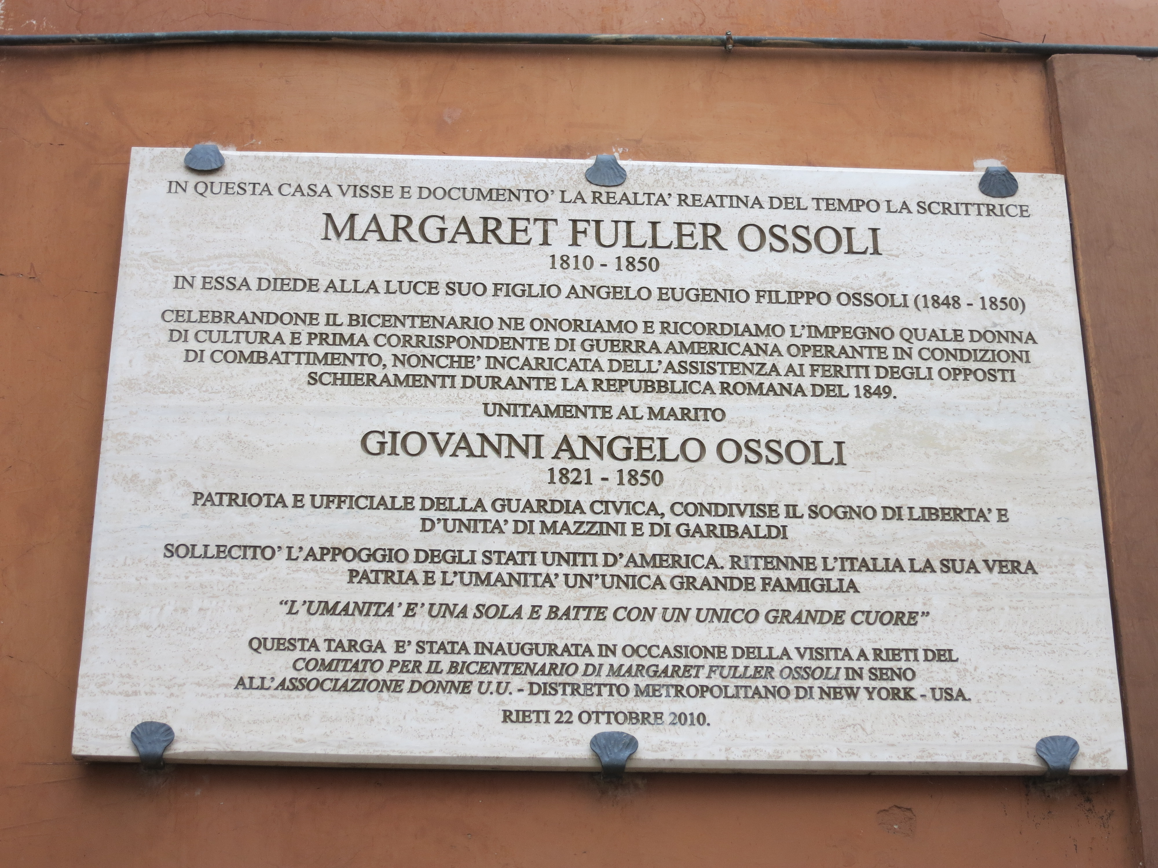 Saint Nicholas church - Rieti, Lazio, Italia